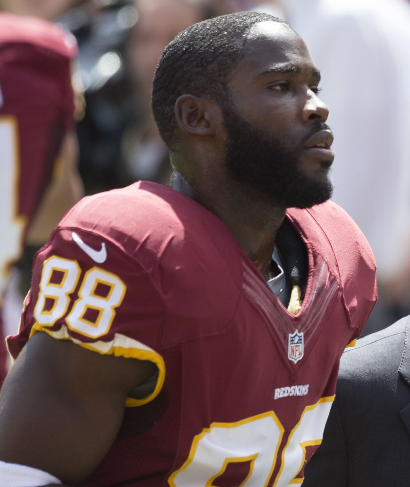 Washington Redskins wide receiver Pierre Garçon, with team owner Daniel Snyder on sidelines during a game against the Miami Dolphins on September 13, 2015.